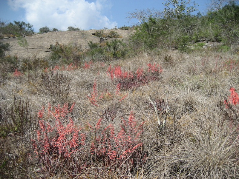 Dry season vegetation at Monte Caramiria (close to Nampula town in Mozambique) with the dwarf form of Aloe chabaudii in flower.